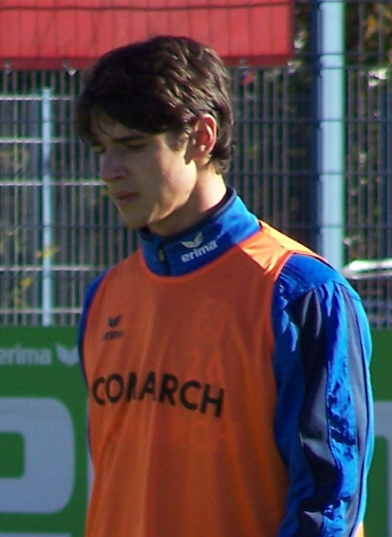 Christopher Schindler, 1860 munich, training